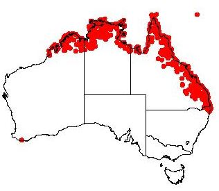 Exocarpos latifolius Occurrence data from Australasian Virtual Herbarium downloaded 2019-08-24 using